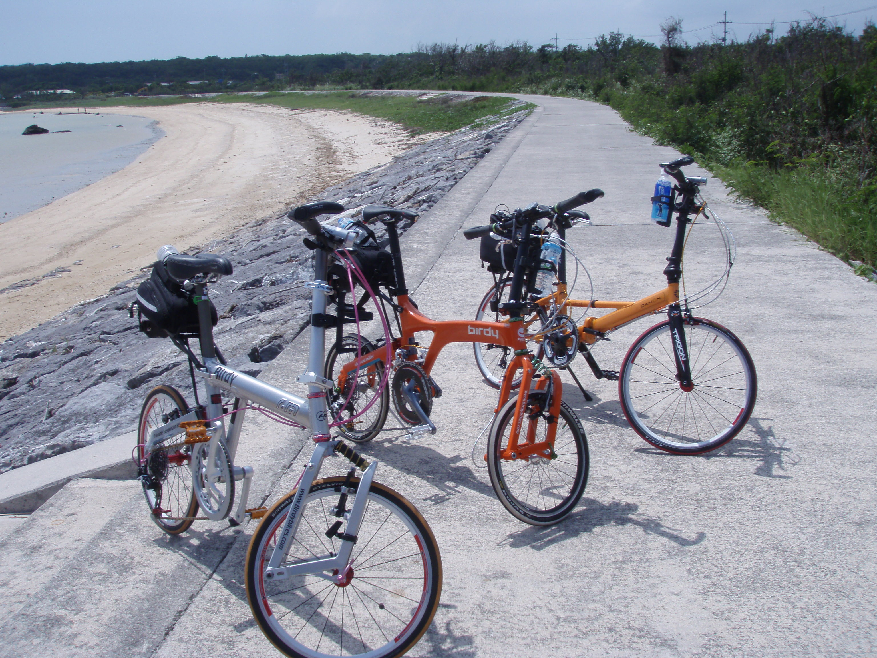 2009.9.10 photo Ishigaki Island in Japan.